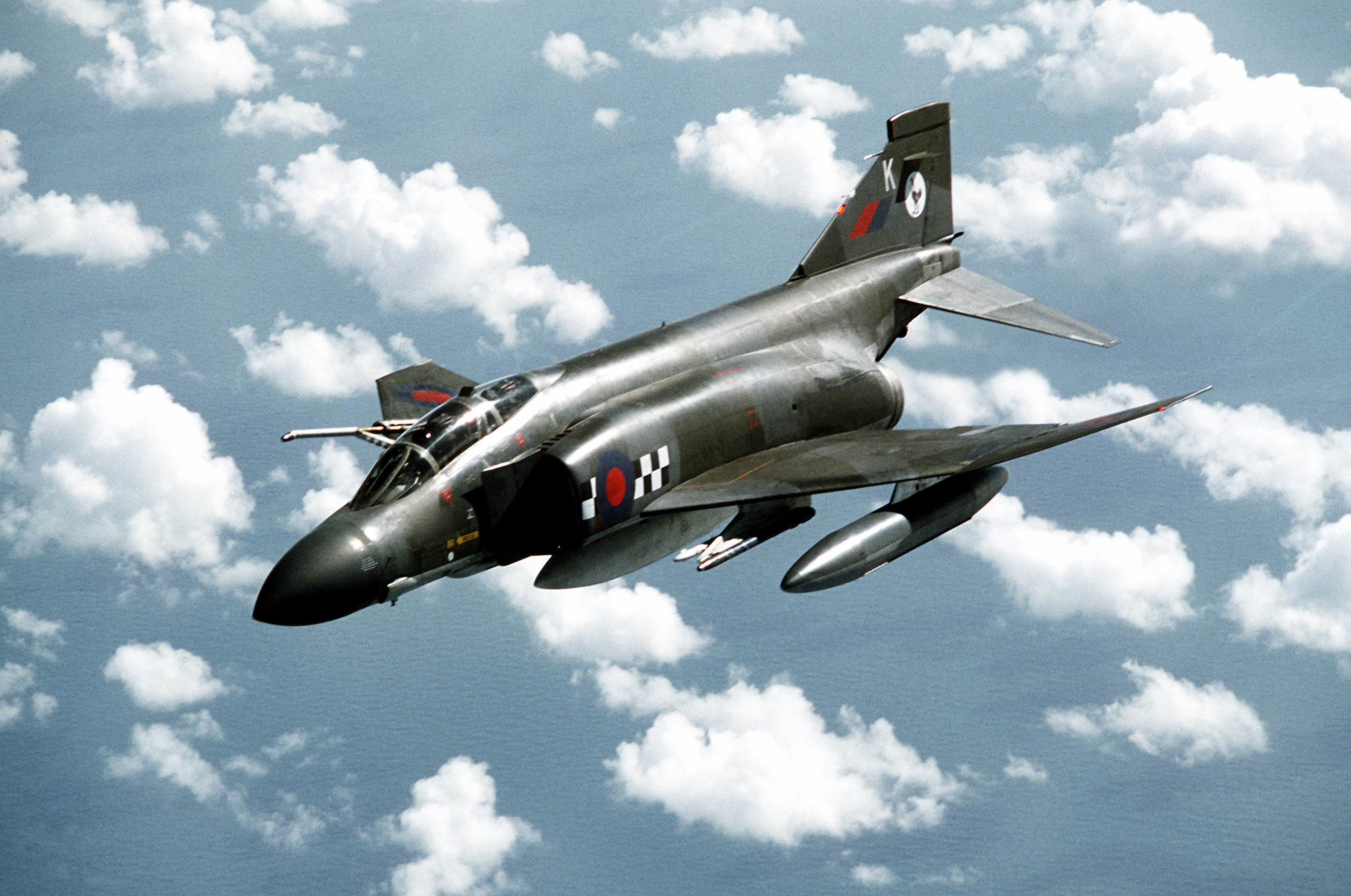 An air-to-air left front view of a Royal Air Force Phantom FG.1 (F-4K) aircraft of No. 43 Squadron in flight. Note extended inflight refueling probe. 43 Sqn and 111 Sqn were the sole users of this variant following the retirement of the Royal Navy FG1's. Prior to this 43 Sqn was formed at RAF Leuchars in 1969 flying the FG1, with 111 Sqn coming north from Coningsby in 1977 exchanging their FGR2's for FG1's in the process.